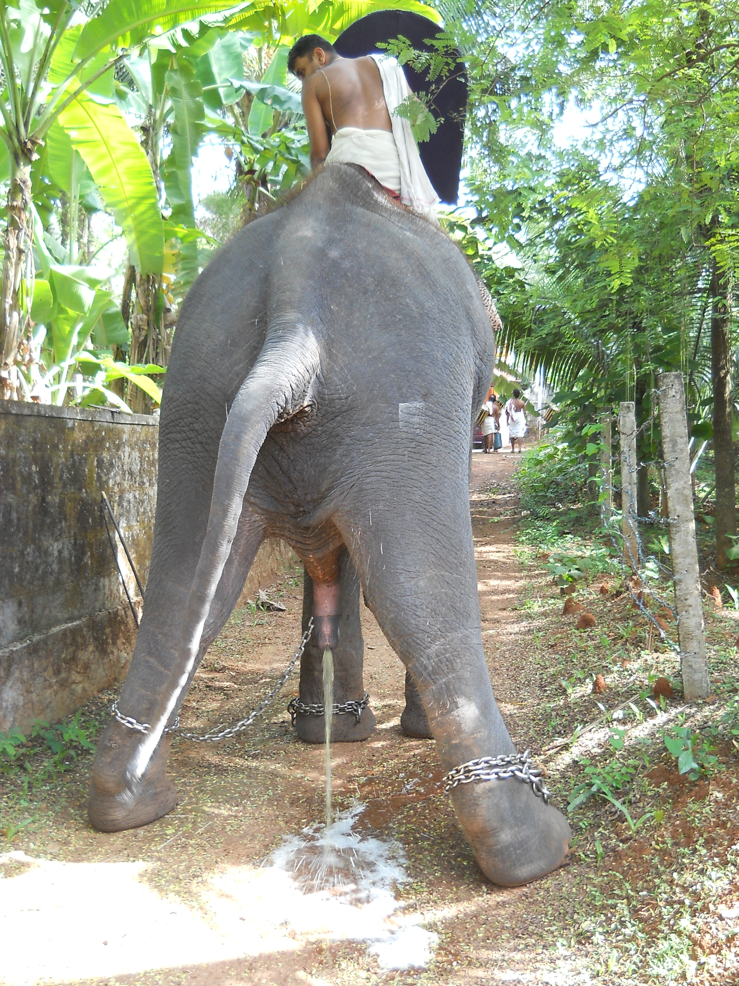 പൂരപ്പറ, ചൂരക്കോട്ടുകാവ, തൃശ്ശൂര്‍ പൂരം This media file is uploaded with Malayalam loves Wikimedia event - 2.